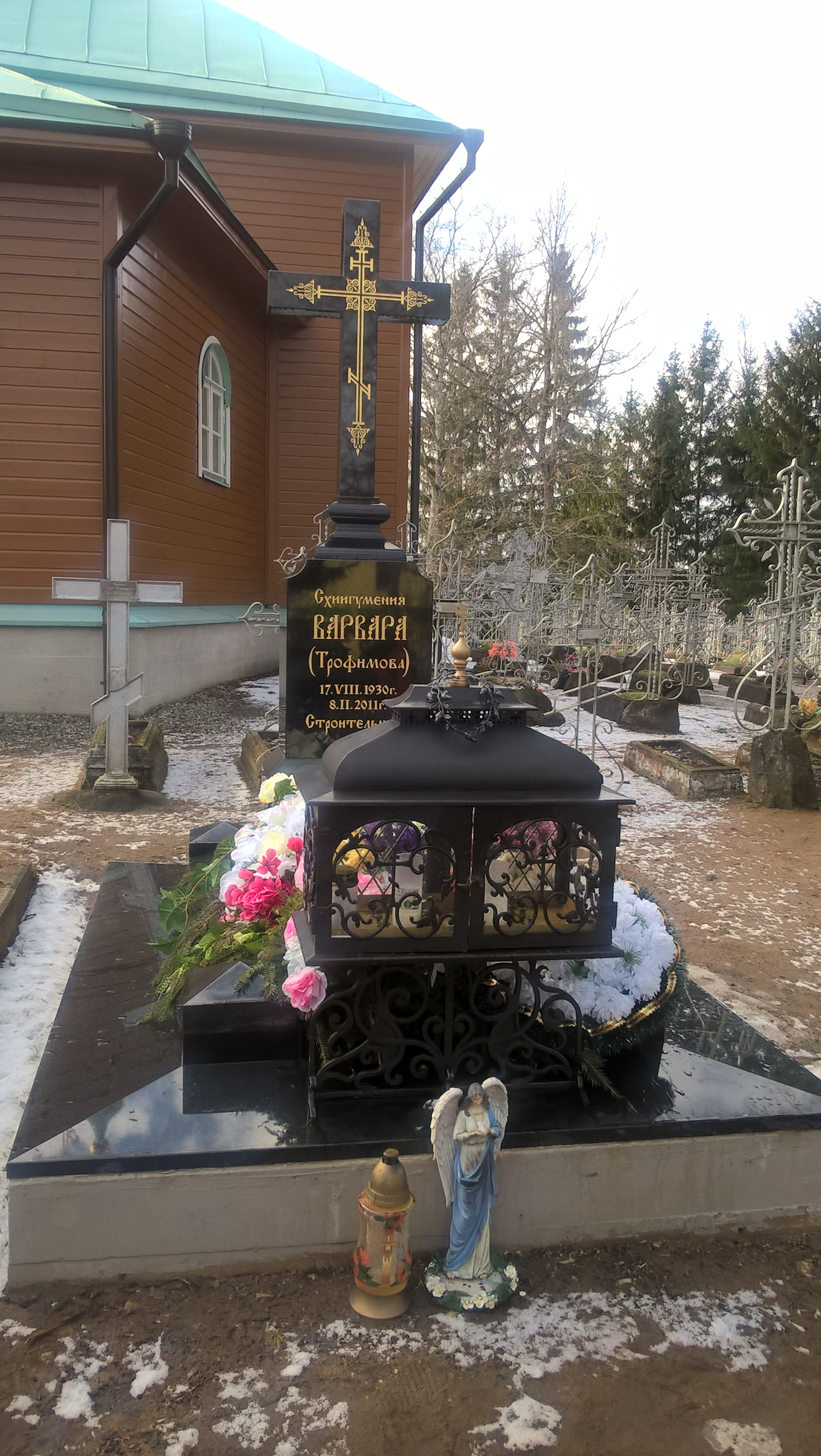 Gravestone of Abbess Barbara in Puhtitsa Convent